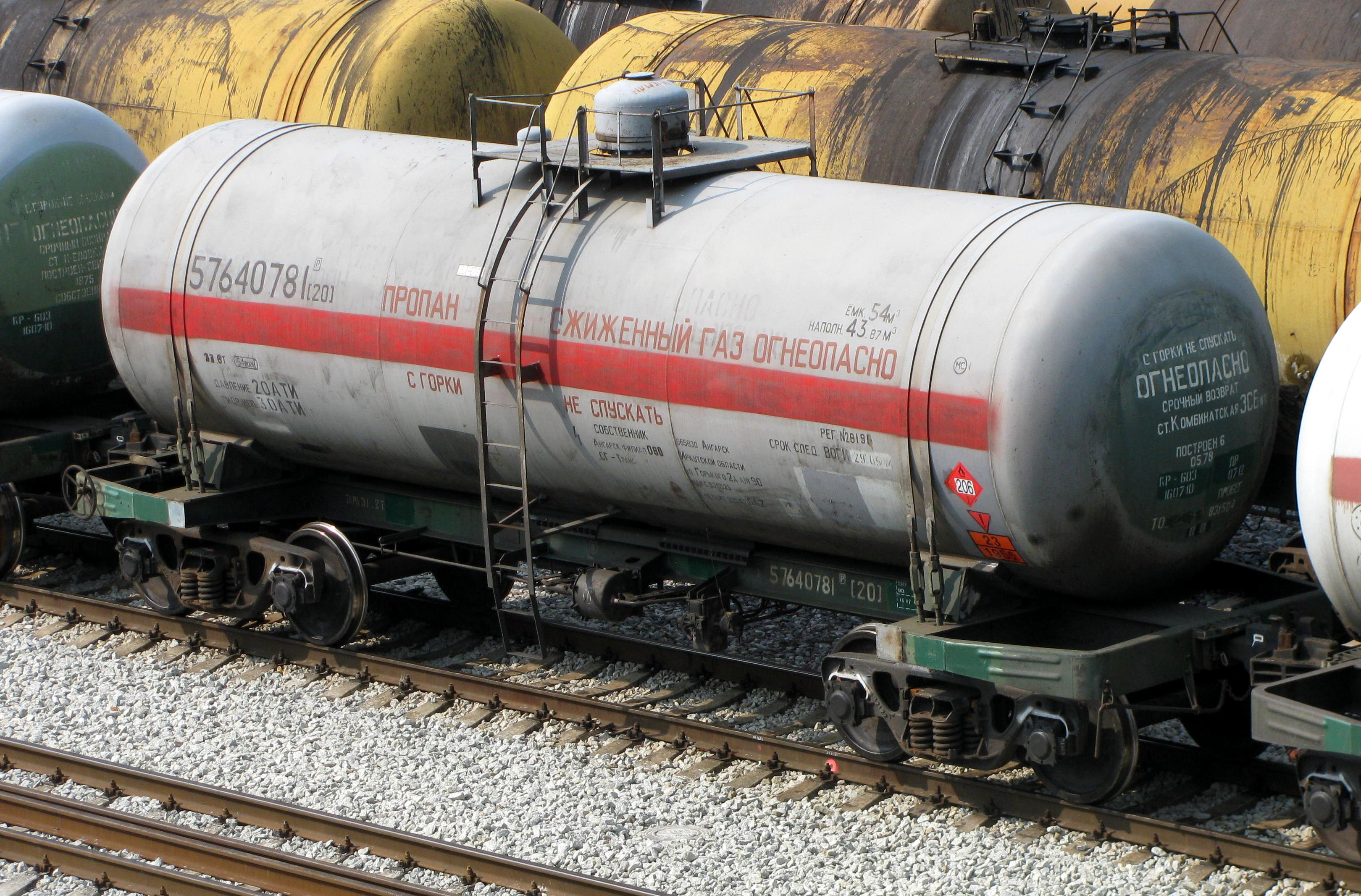 Russian liquid gas tank wagon at Valga railway station, Estonia